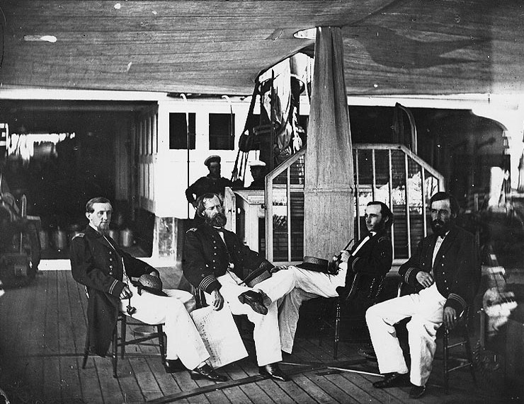 From U.S. Navy public domain Photo #: NH 61929 USS Agawam (1864-1867) Some of the ship's officers relaxing on deck, while she was serving on the James River, Virginia, in the summer of 1864. They are (from left to right): Assistant Paymaster H. Melville Hanna; Commander Alexander C. Rhind, Commanding Officer; Assistant Surgeon Herman P. Babcock; and Lieutenant George Dewey. Note awning overhead, and windsail rigged for ventilation of the spaces below decks.